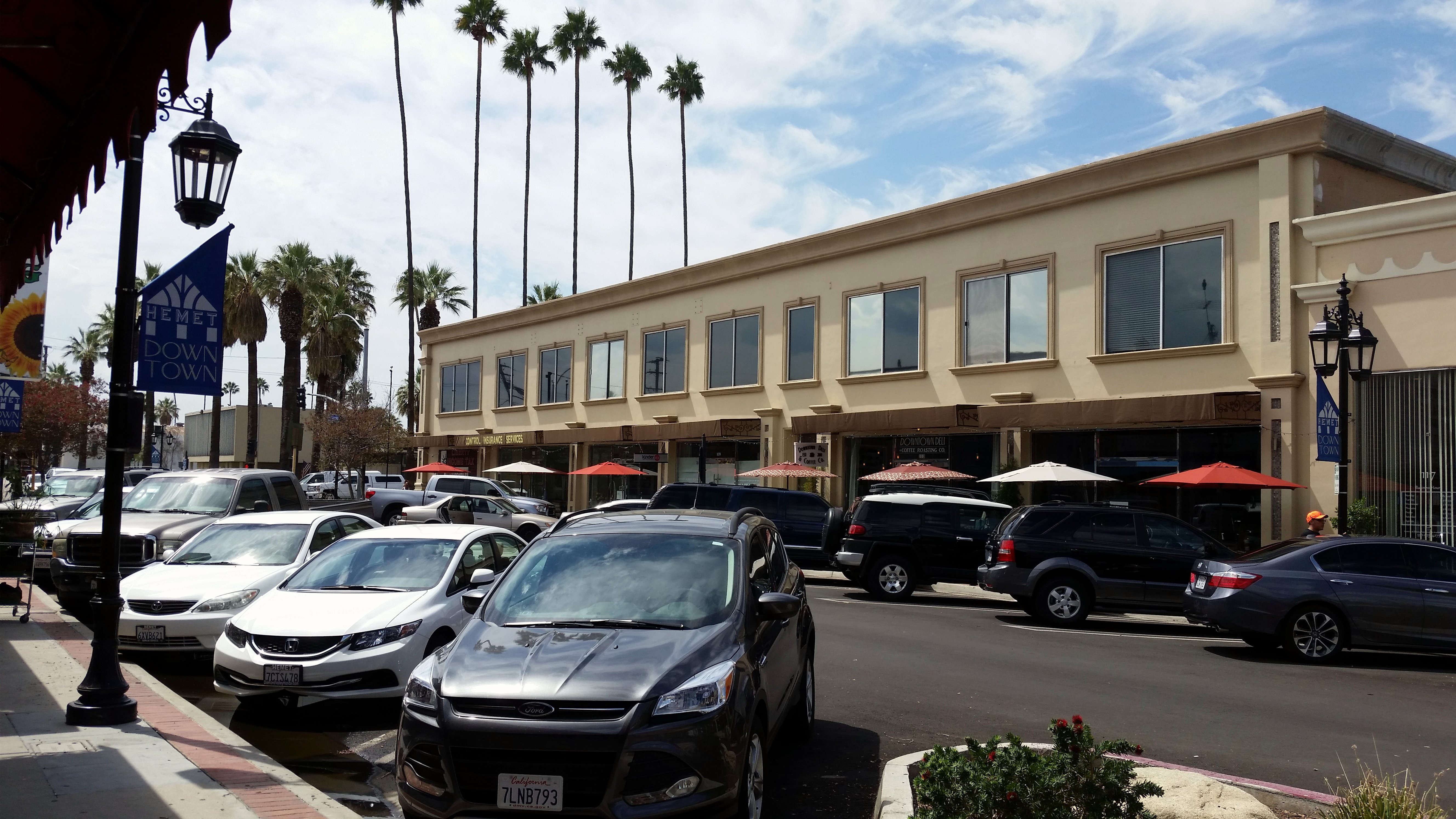 Downtown Hemet, looking south down Harvard St. Downtown Deli and Coffee Company is to the right.